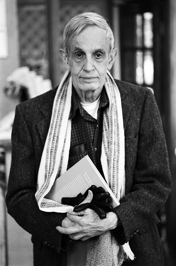 John Forbes Nash Jr. (June 13, 1928 – May 23, 2015) was an American mathematician and economist. Serving as Senior Research Mathematician at Princeton University during the later part of his life, he shared the 1994 Nobel Memorial Prize in Economic Sciences with game theorists Reinhard Selten and John Harsanyi.